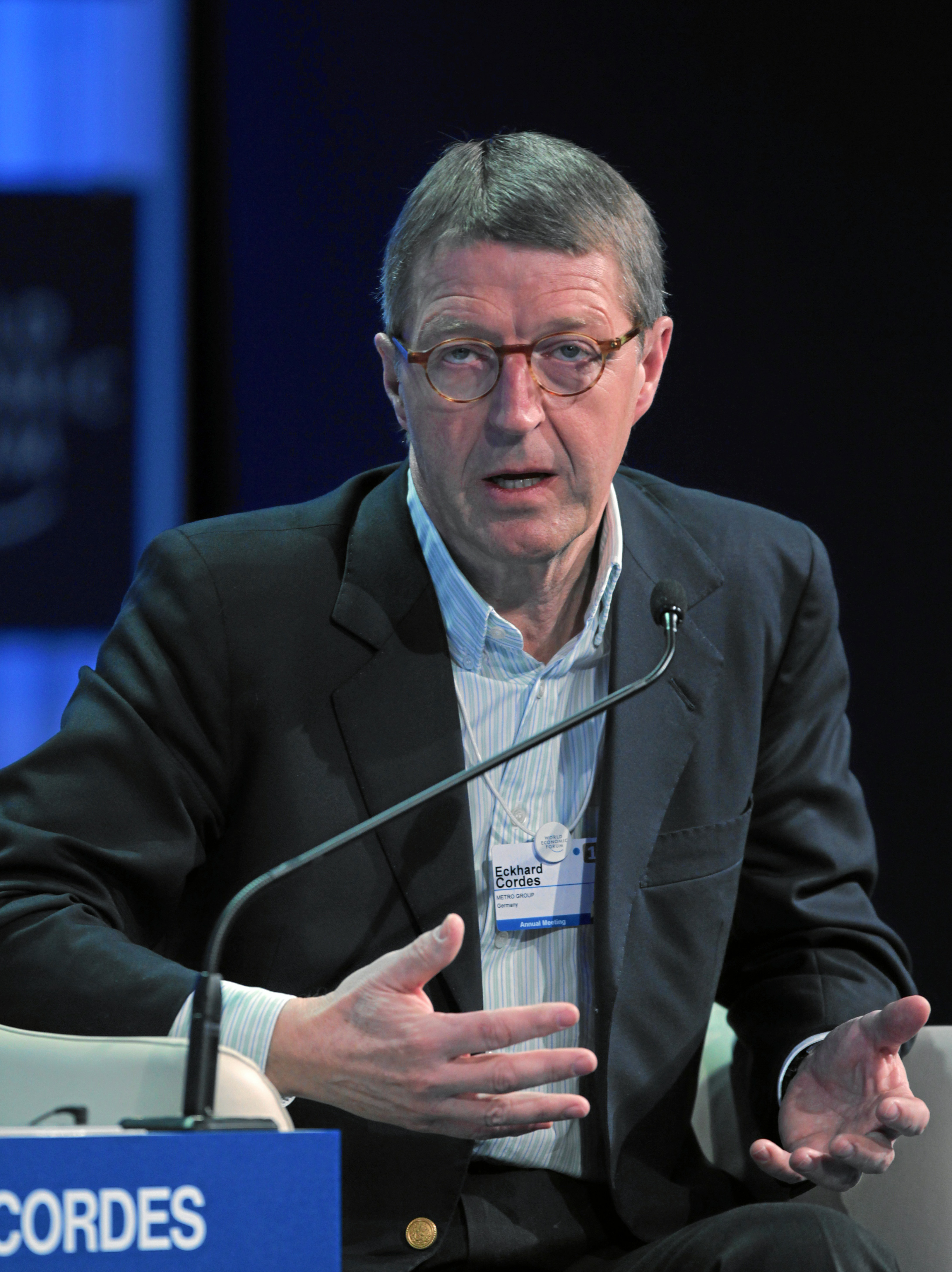 DAVOS/SWITZERLAND, 27JAN11 - Eckhard Cordes, Chief Executive Officer, METRO GROUP, Germany is captured while speaking during the session 'The Next Shock: Are We Better Prepared?' at the Annual Meeting 2011 of the World Economic Forum in Davos, Switzerland, January 27, 2011. Copyright by World Economic Forum by Sebastian Derungs